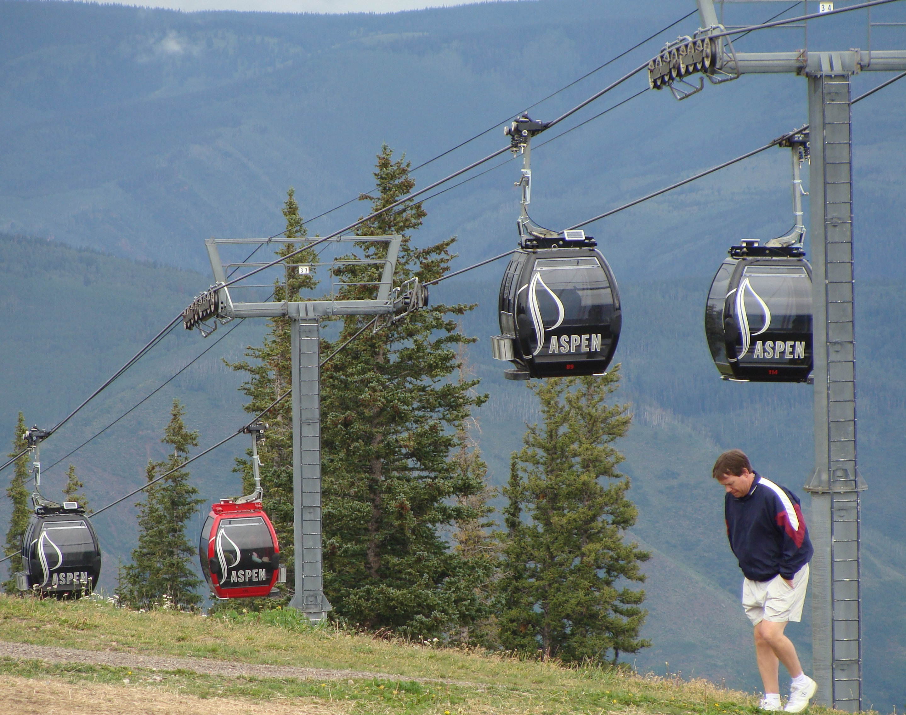 Silver Queen Gondola lift, Aspen, Colorado, August 2010